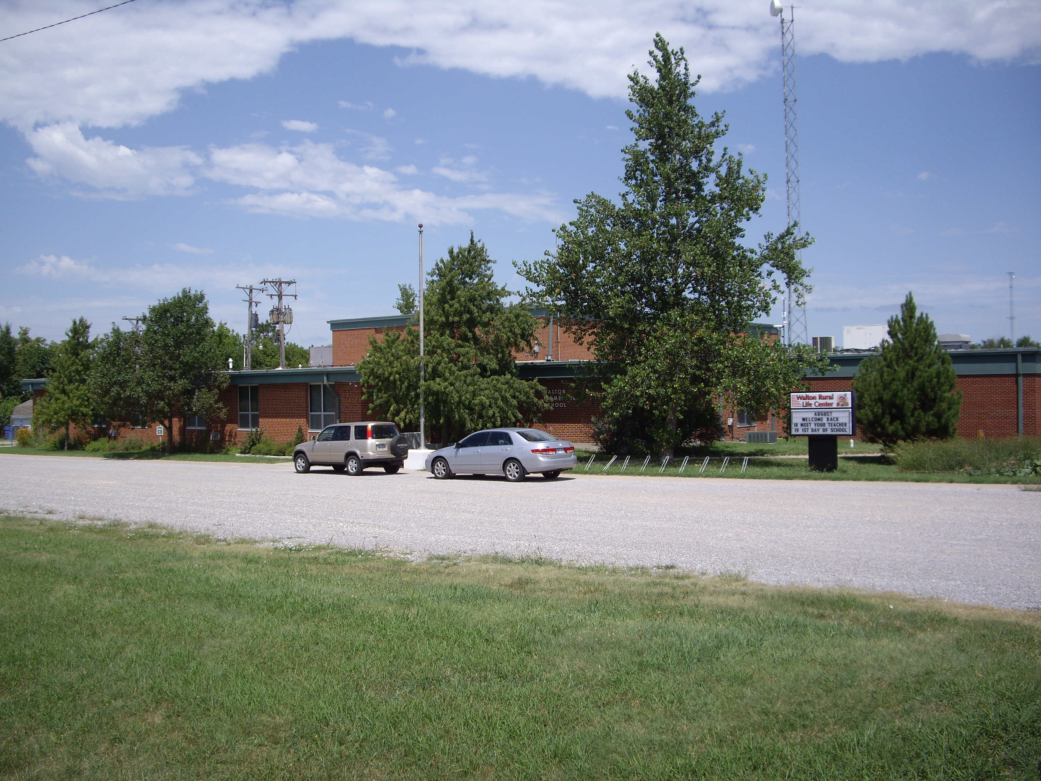 Walton Rural Life Center (Charter Elementary) School, 502 West Main Street, Walton, Kansas, 67151, USA. Looking northwest. Photo by Steve Meirowsky on August 4, 2010.